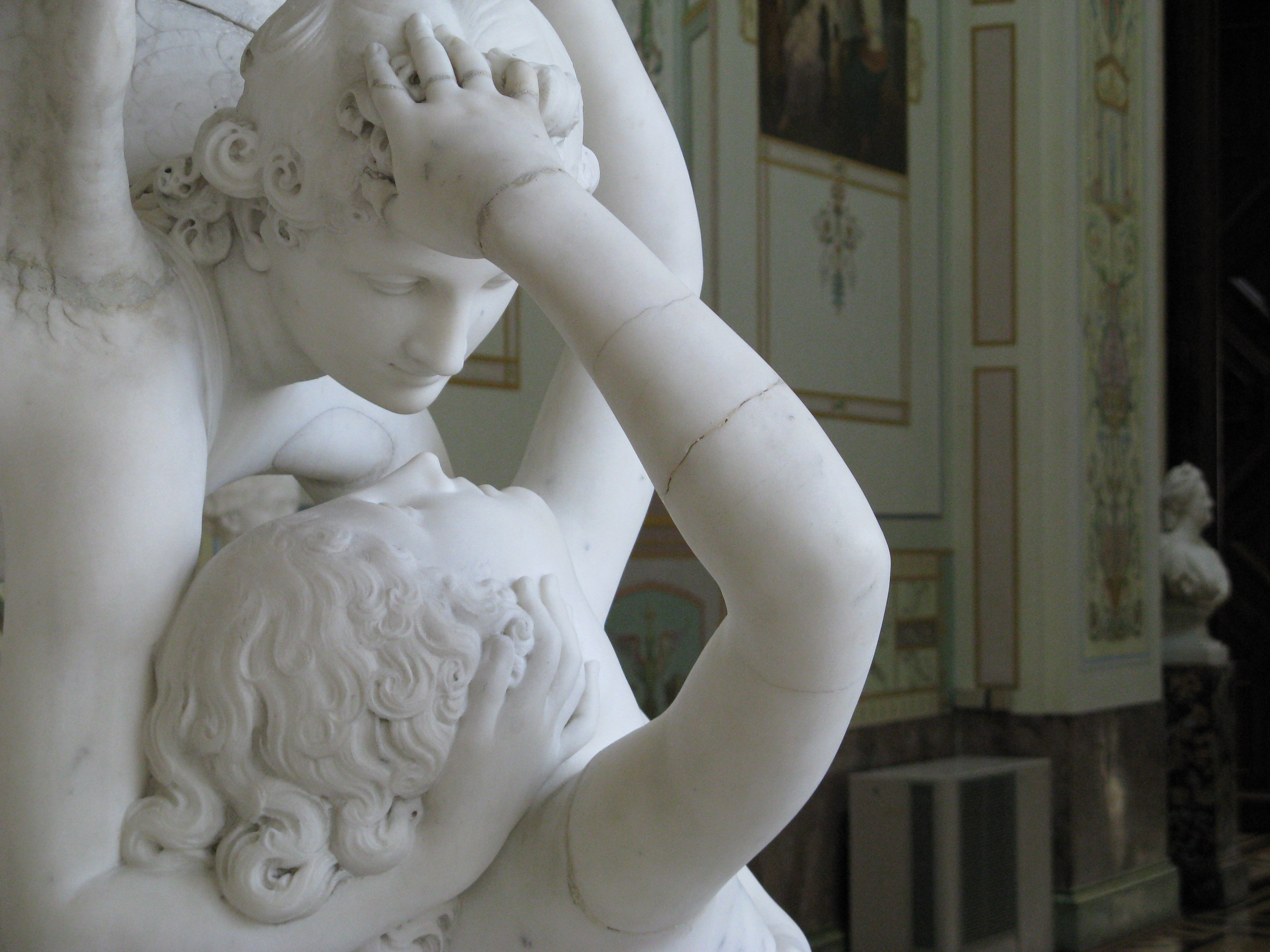 Creator: Antonio Canova (ca. 1757-1822). Title: Cupid's Kiss. Location: Hermitage, St. Petersburg.